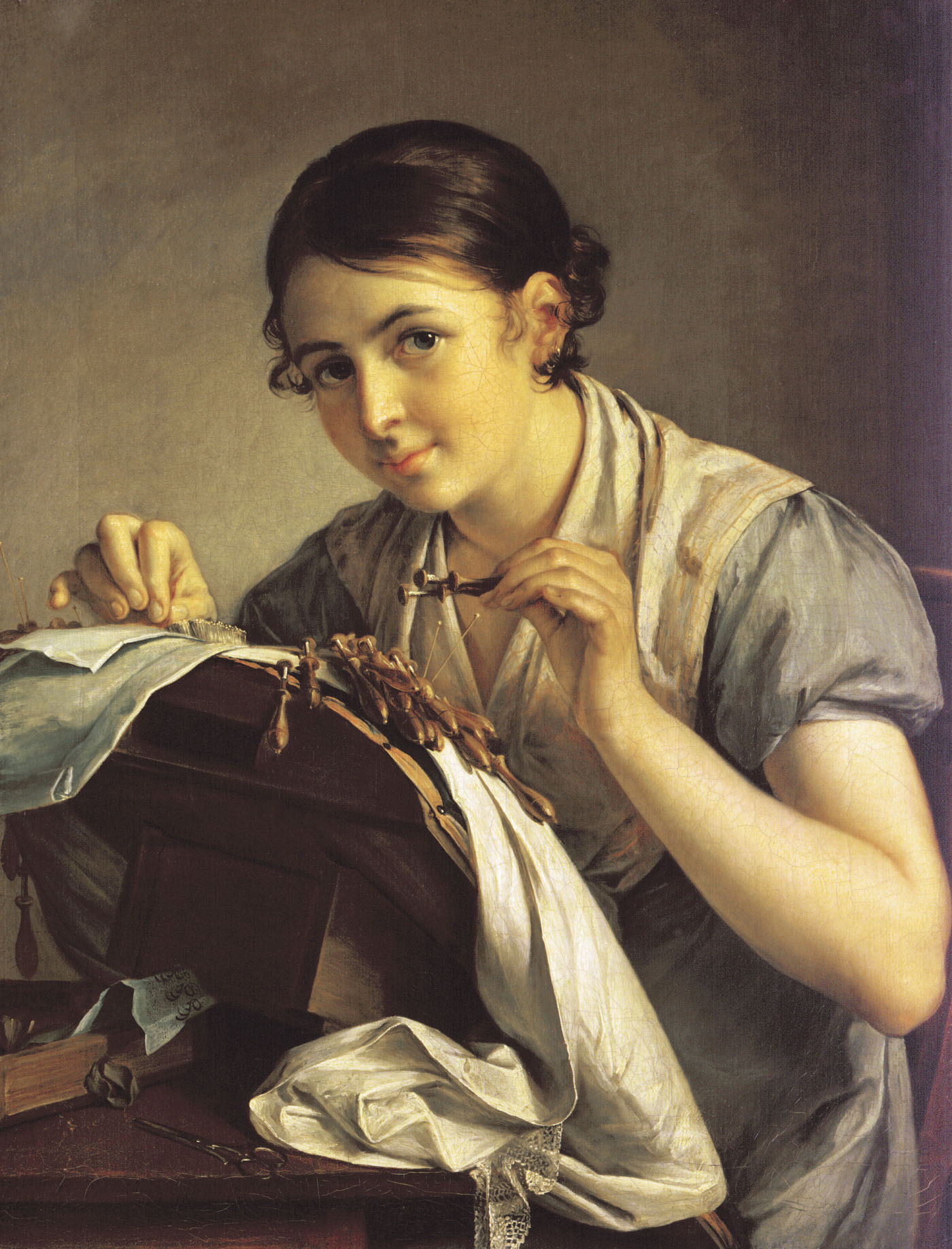 The lace-maker Кружевница 1823. Oil on canvas. The Tretyakov Gallery